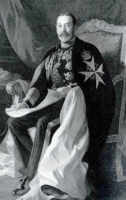 This is an image of HM King George V of the United Kingdom. He is shown wearing his robes as Grand Master of the Venerable Order of St John.